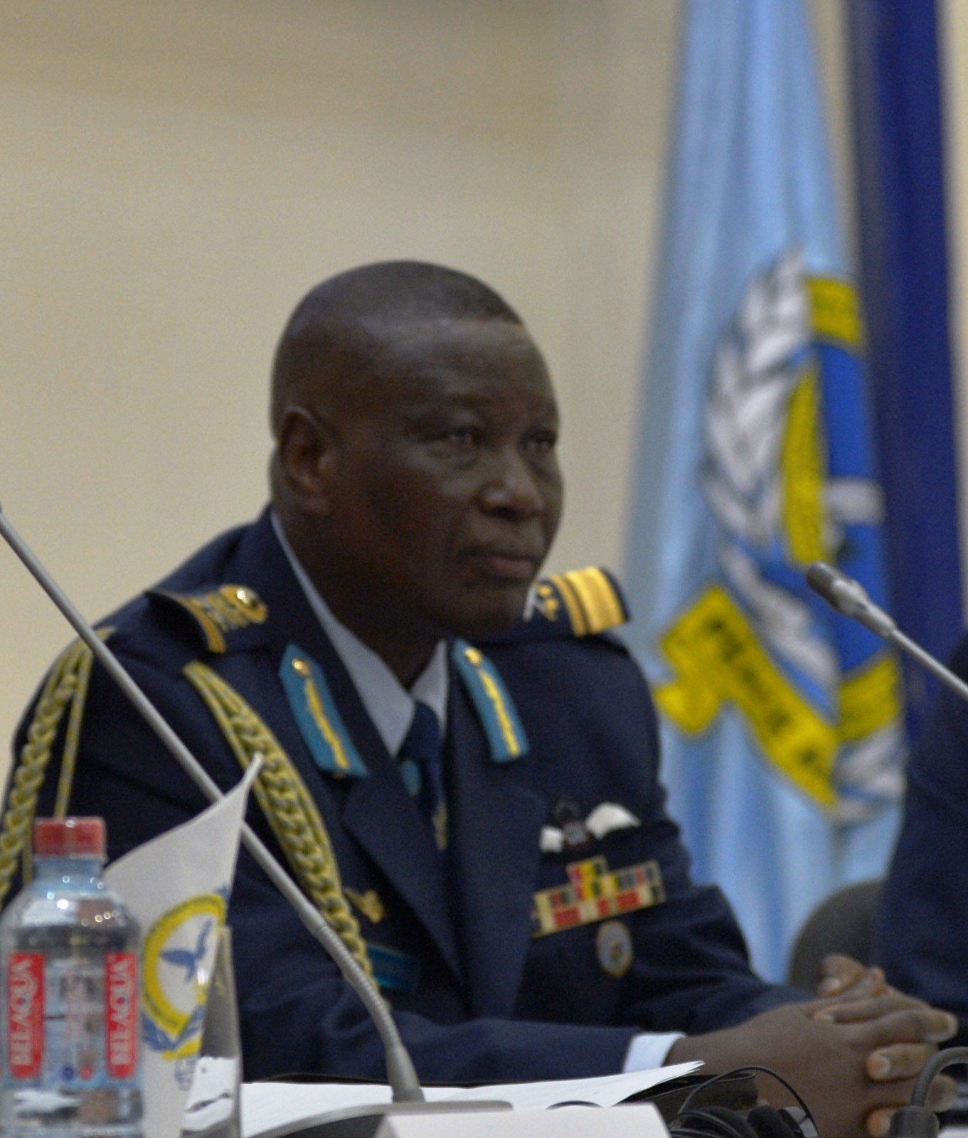 Air Vice Marshal Michael Samson-Oje, Ghanaian Chief of Air Staff, at the Regional African Air Chiefs Symposium in Accra, Ghana. Taken on 20 August 2013